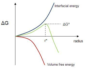 Determination of the critical radius and critical free energy